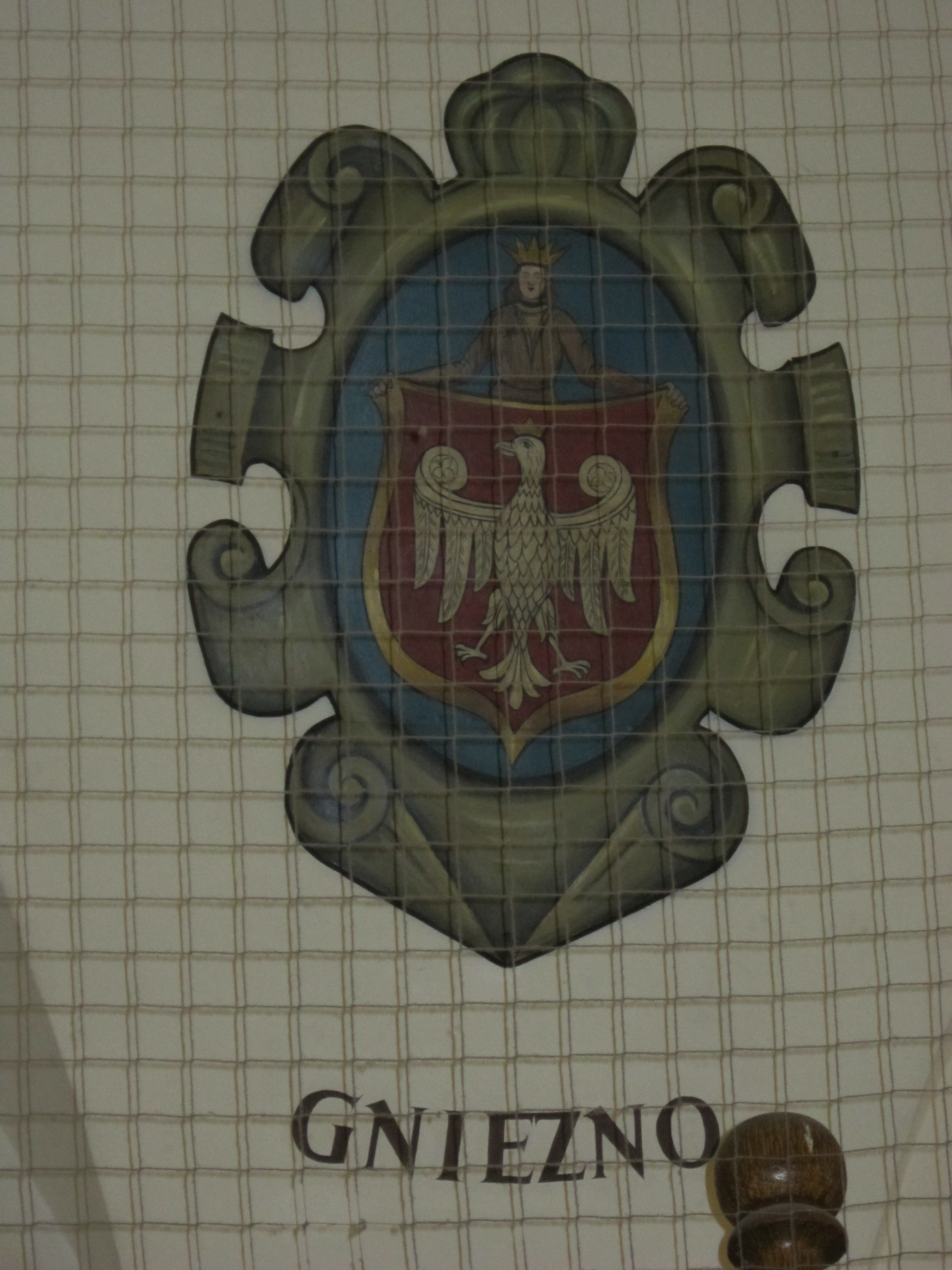 Cracow, Sukiennice. Relief with Coat of Arms of Gniezno.